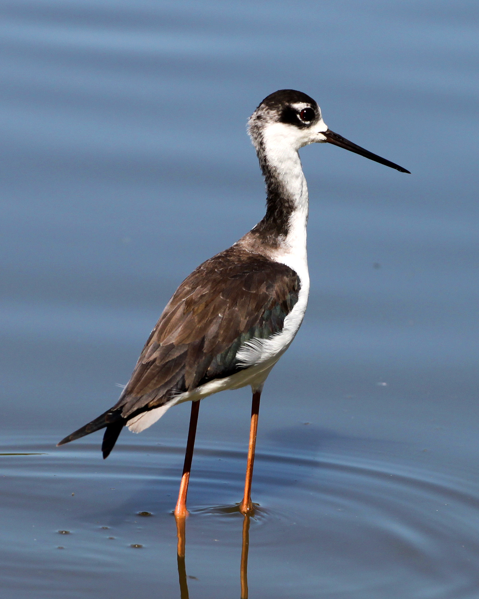 Black-necked stilt (Himantopus mexicanus) at San Joaquin Marsh, Irvine, CA